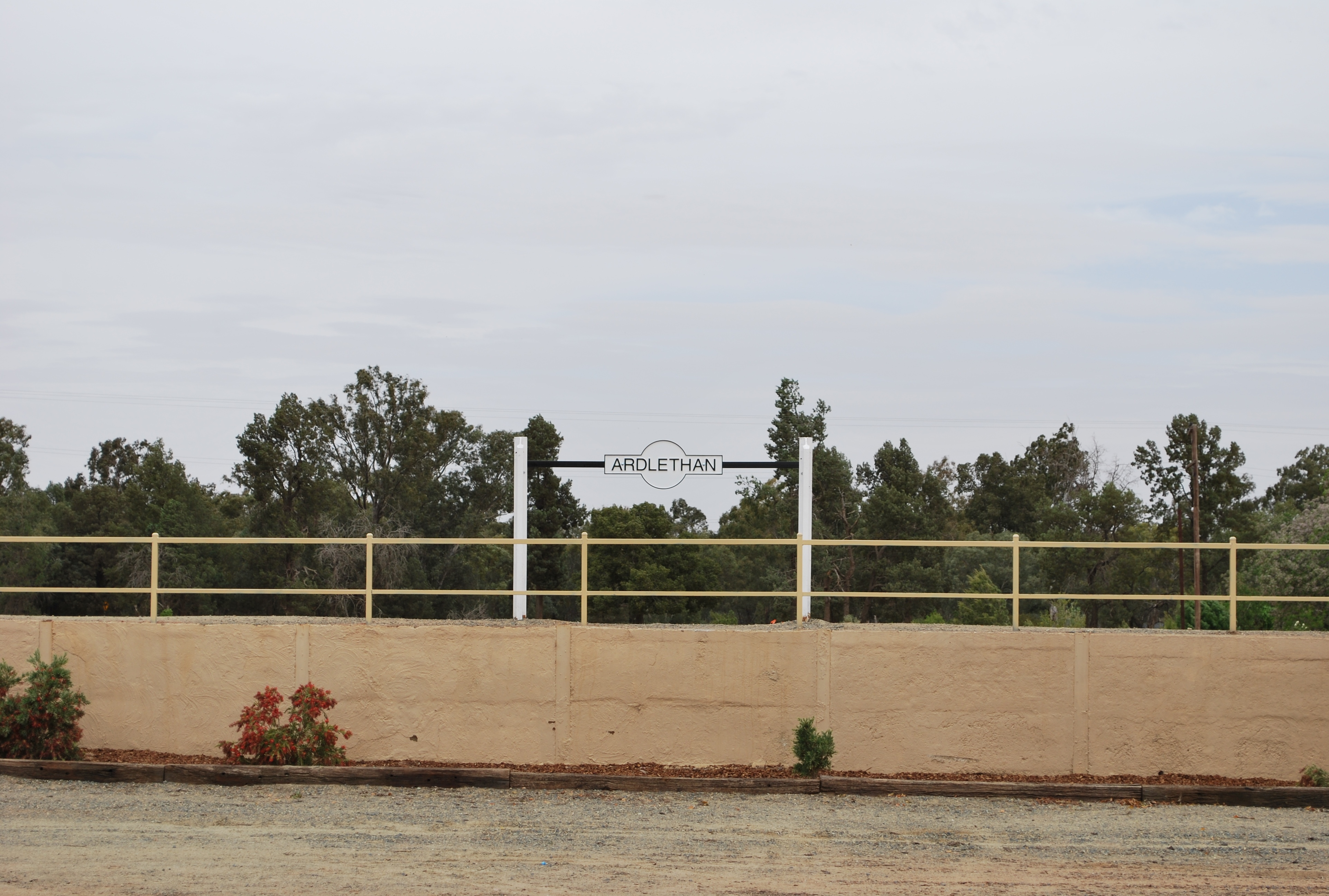 Railway siding at Ardlethan, New South Wales